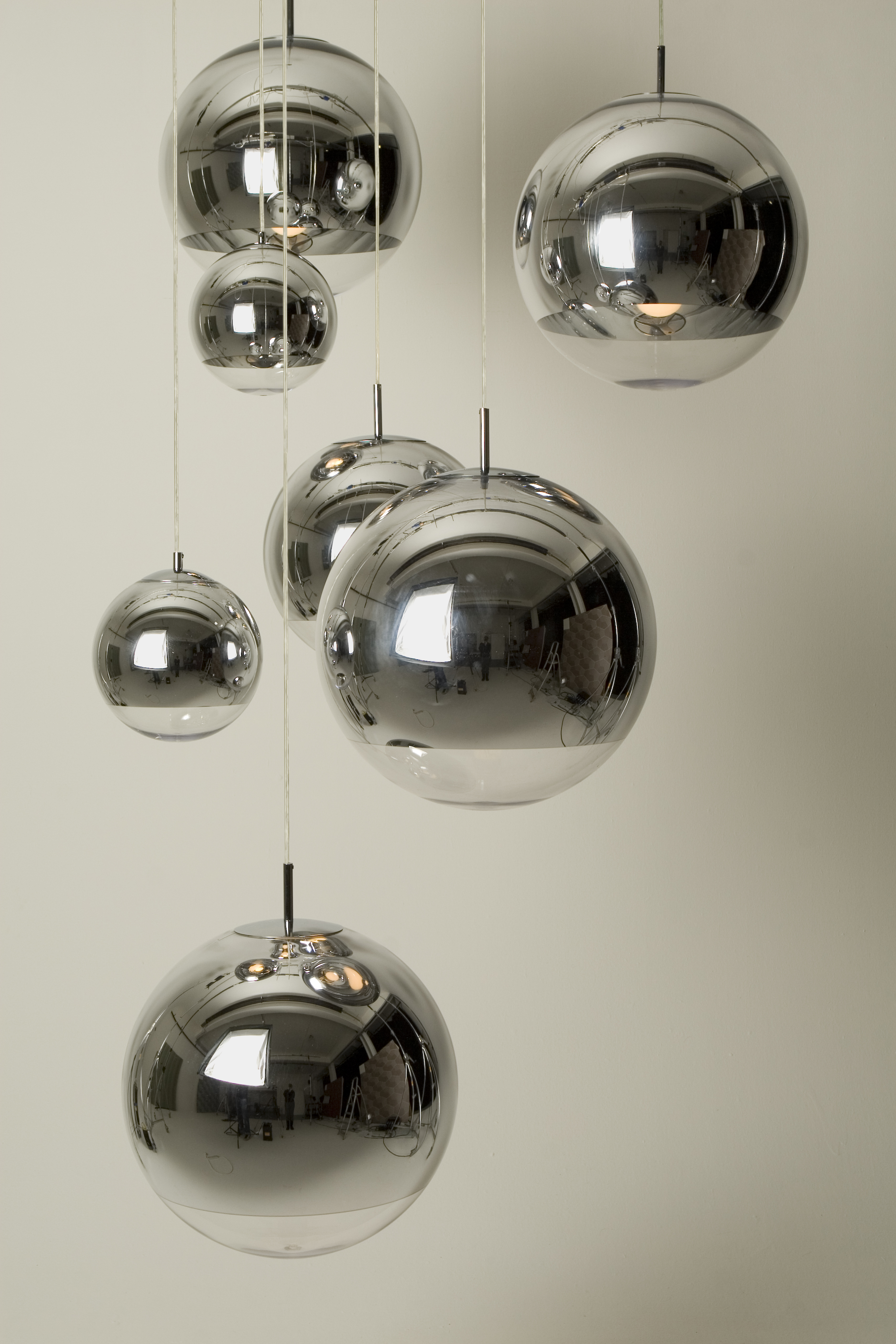 Tom Dixon: Mirror Ball Pendant Lights